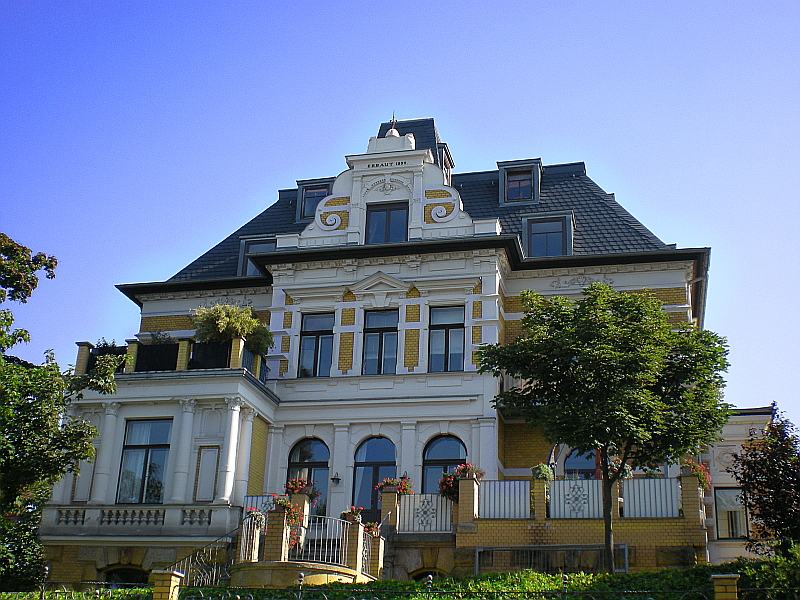 Villa at Goethestraße 12, Gera, Thuringia, built in 1891/92 by architect Carl Zaenker for Otto Feistkorn; so-called Villa Helene